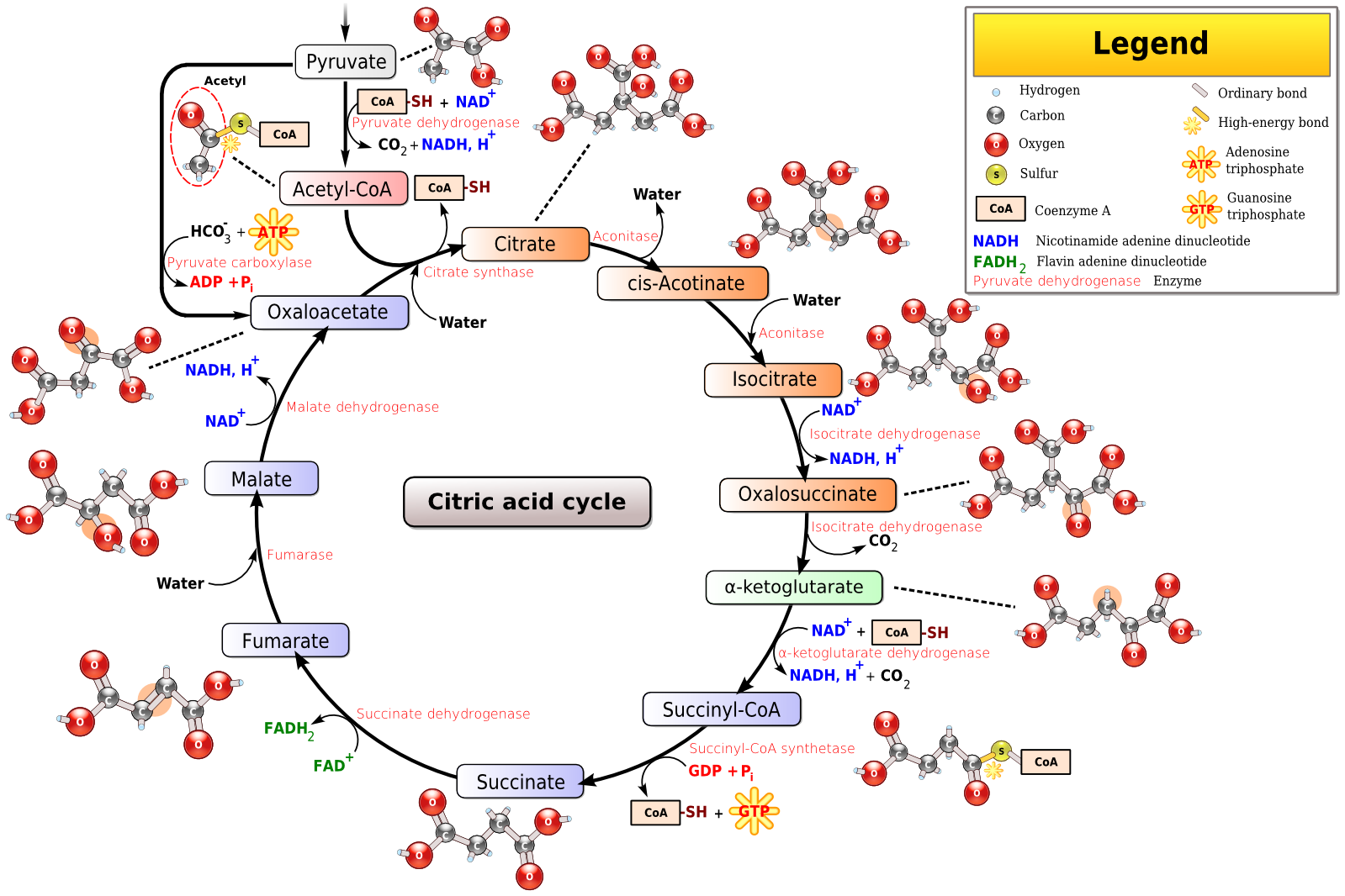 Tricarboxylic acid cycle (also known as the citric acid cycle) and some preceding steps